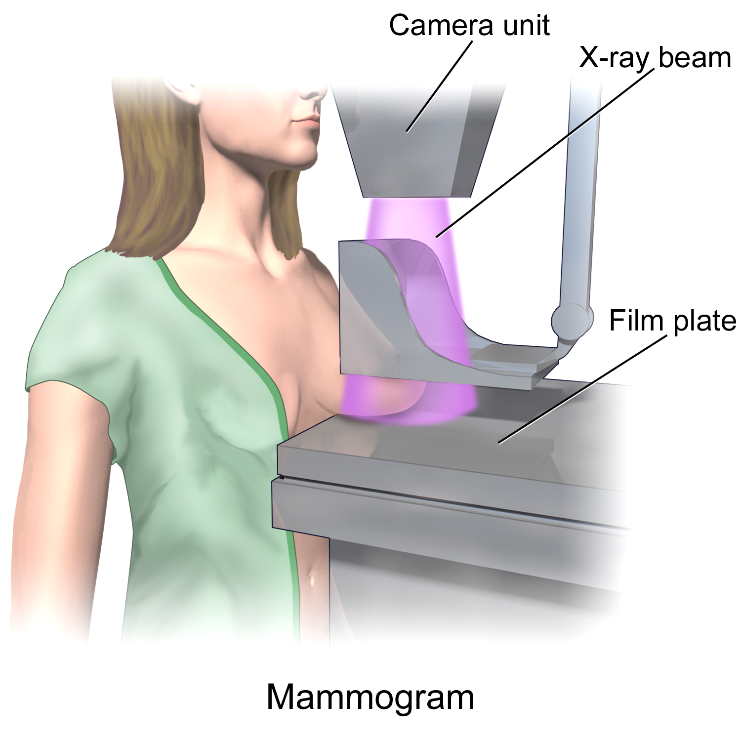 Mammogram. See a related animation of this medical topic.